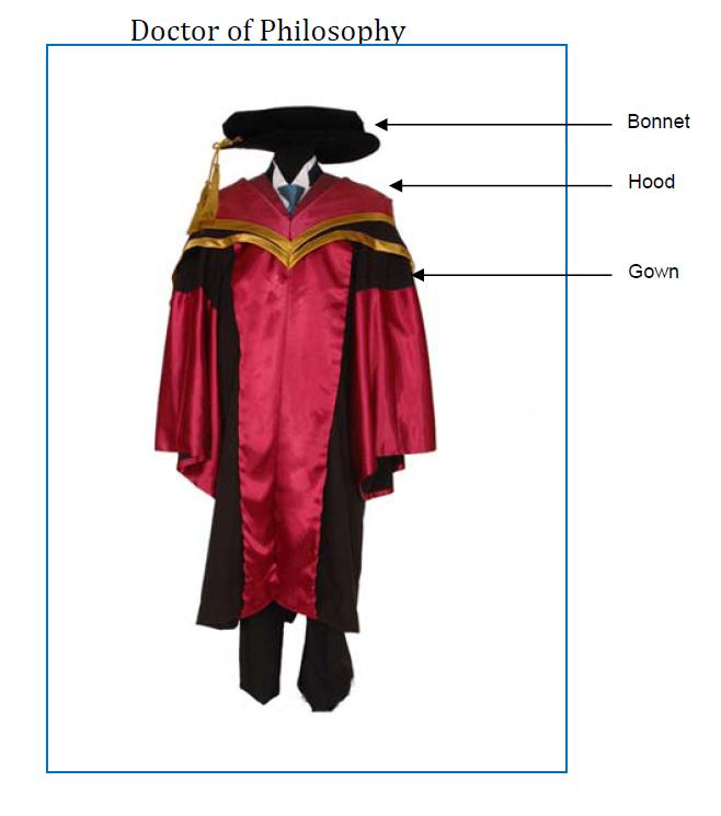 Diagram of the gown, hood and bonnet used in graduation/presentation ceremonies of Ph.Ds.